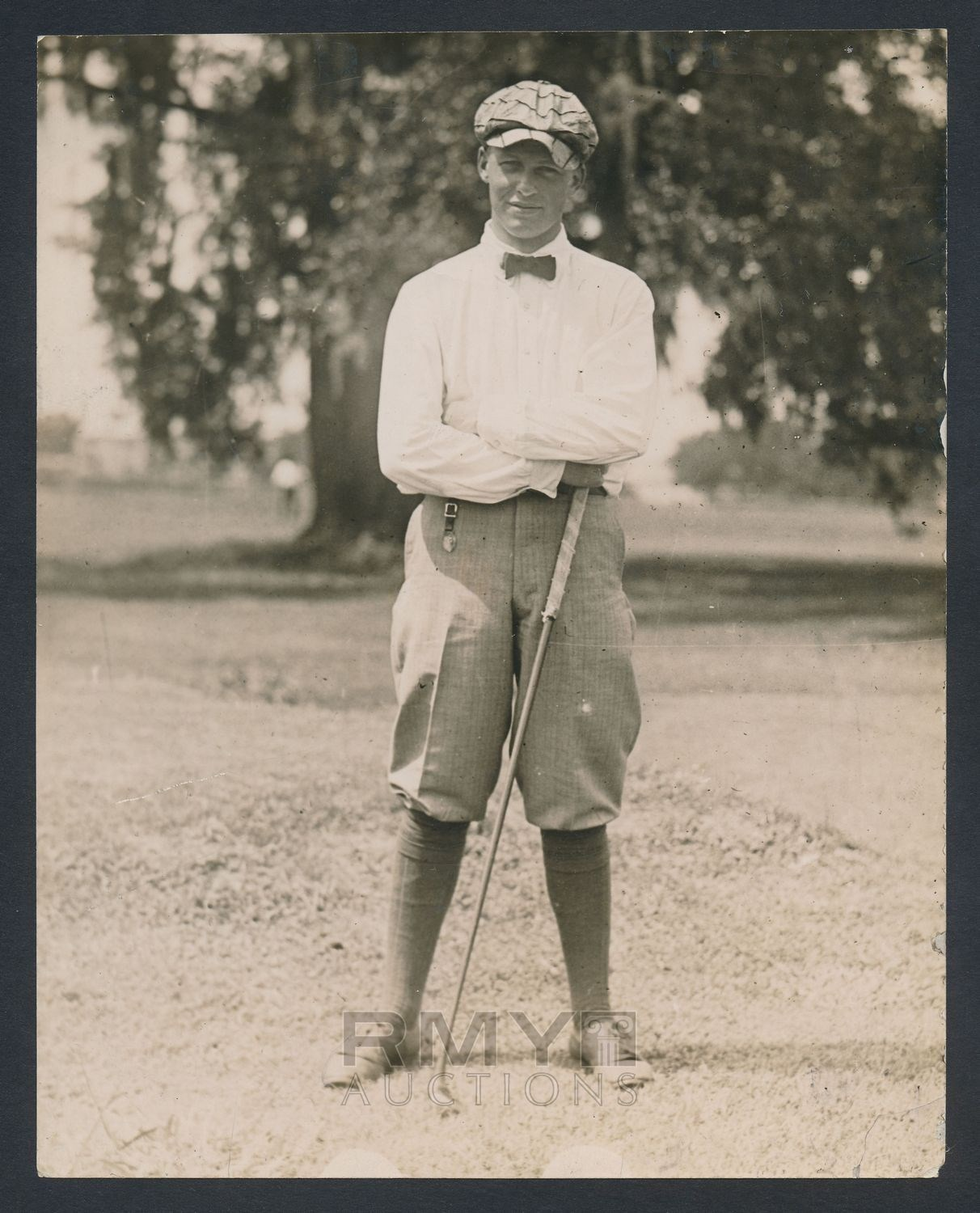 Seventeen year old Bobby Jones posing on the course